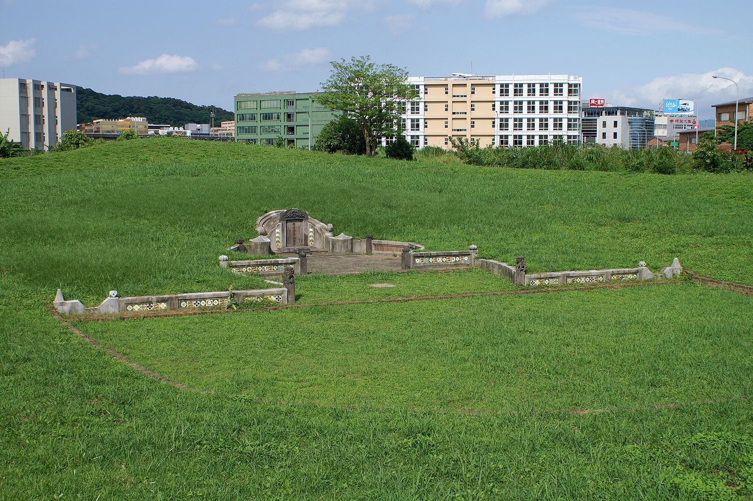 Tomb in the Neihu District of Taipei City